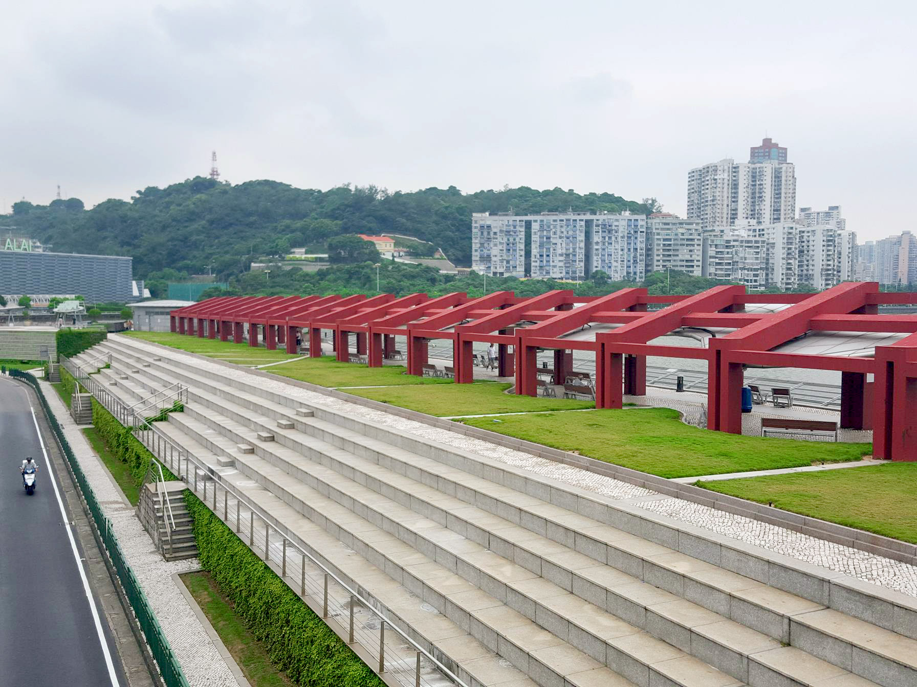 Reservatorio Macau